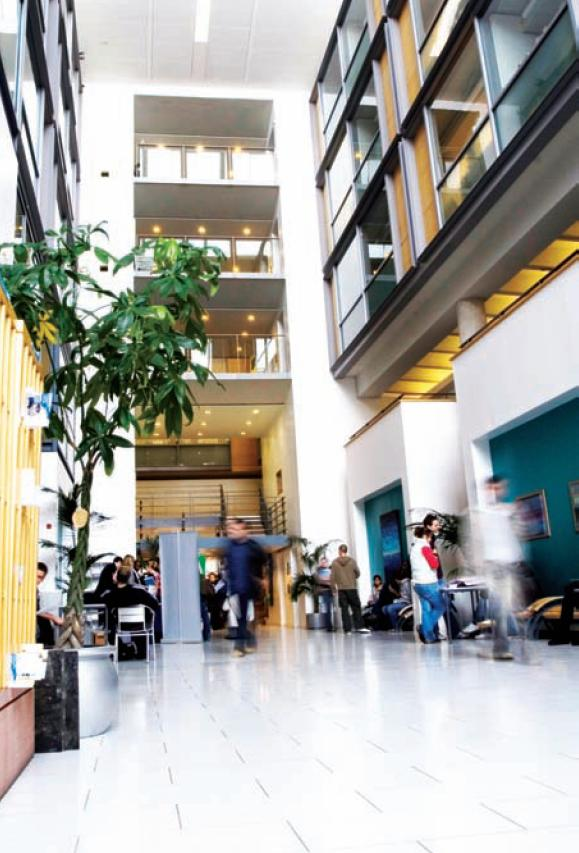 Atrium of MBS East Building, on the corner of Booth Street West and Oxford Road, Manchester.